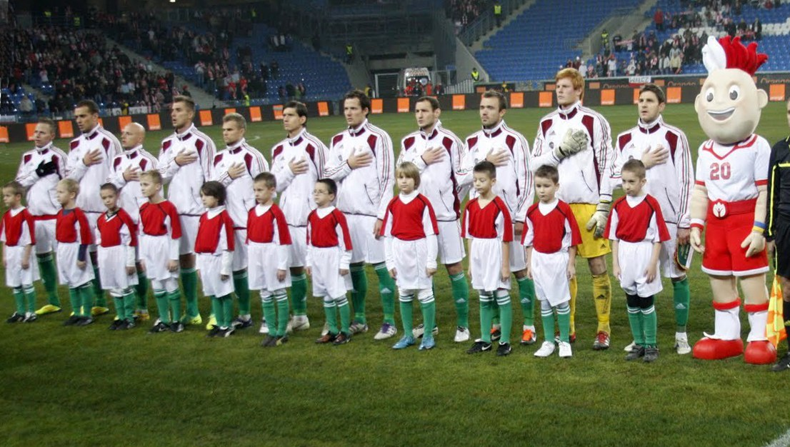 Hungary national football team before match against Poland